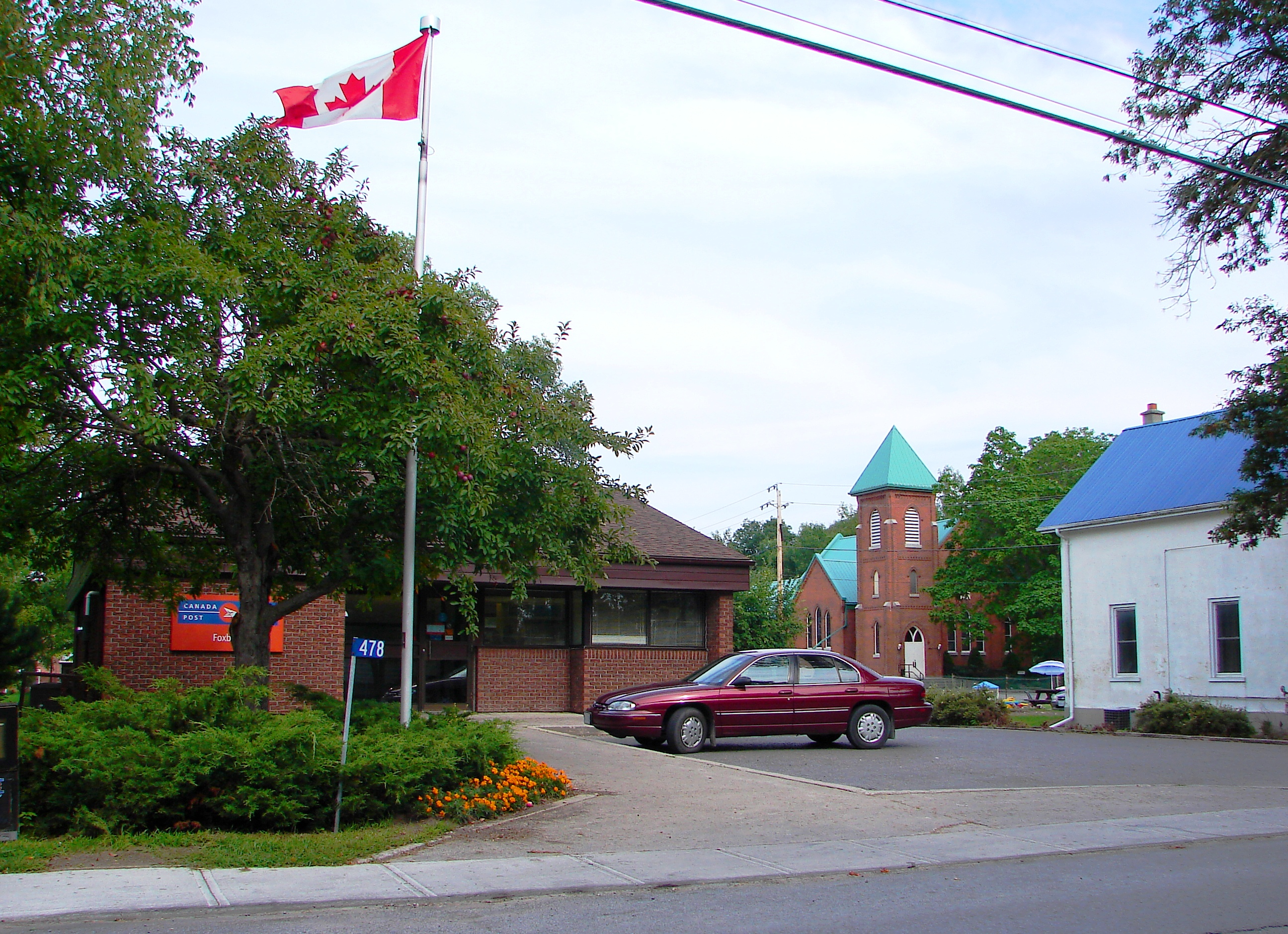 Foxboro (part of City of Belleville), Ontario, Canada